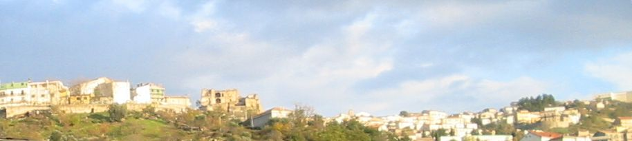 Laurenzana Skyline 2011